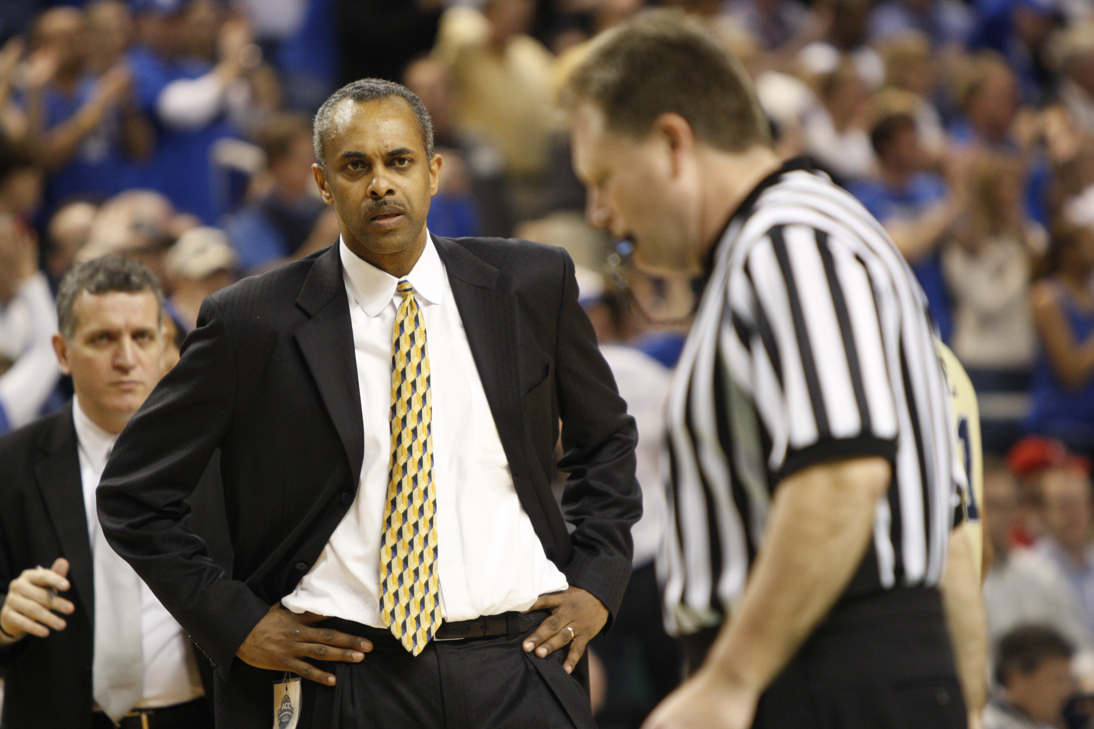 Georgia Tech Head Coach Paul Hewitt eyes game official Karl Hess after a disputed call during the ACC Men's Basketball Tournament Final. Georgia Tech eventually fell to Duke, 61-65.